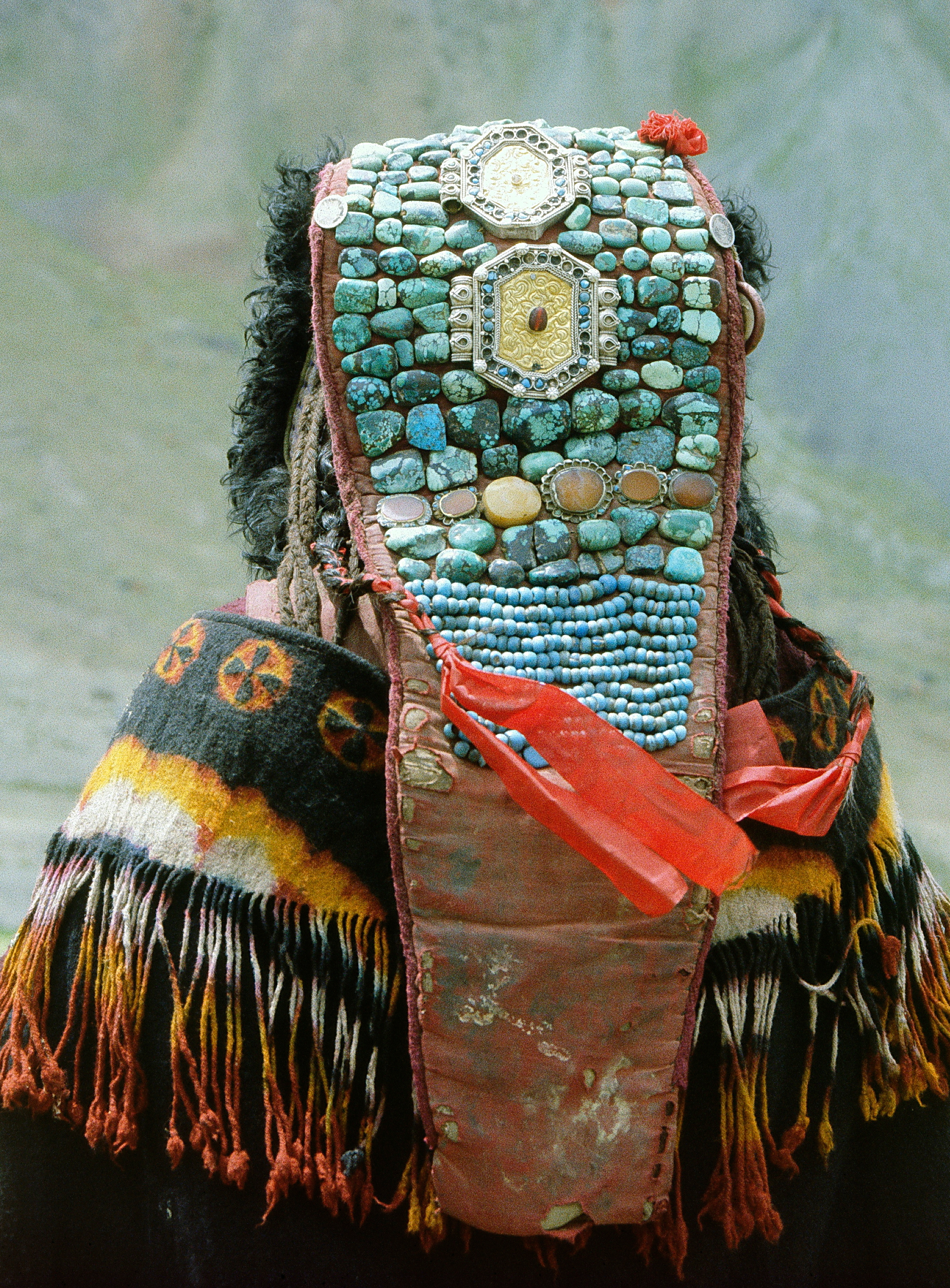 Zanskarie people wearing a perak (traditional headdress) composed of turquoises (Zanskar).